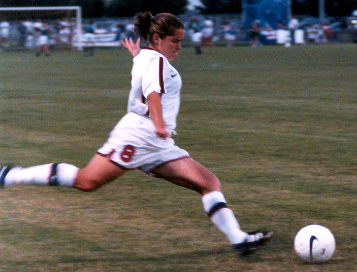 MacMillian in half time work out.